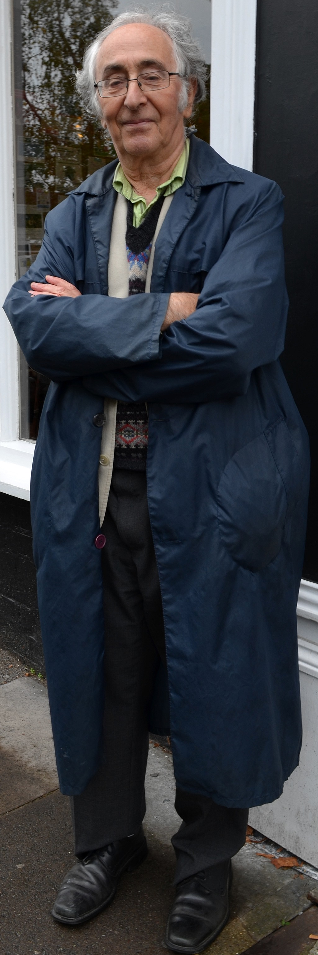 Emeritus Professor Brian Josephson before the Cambridge Wikimedia Meetup 23 walking tour on 20 September 2014.